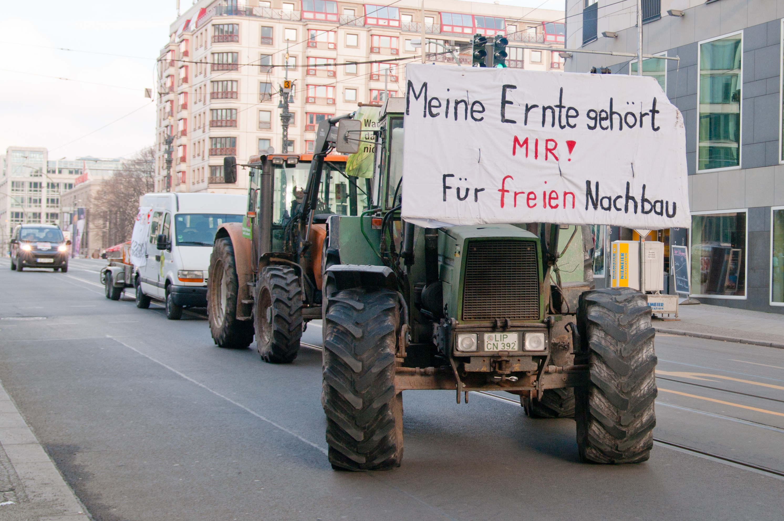 "Wir haben es satt!" (We are fed up) demonstration Berlin 2013